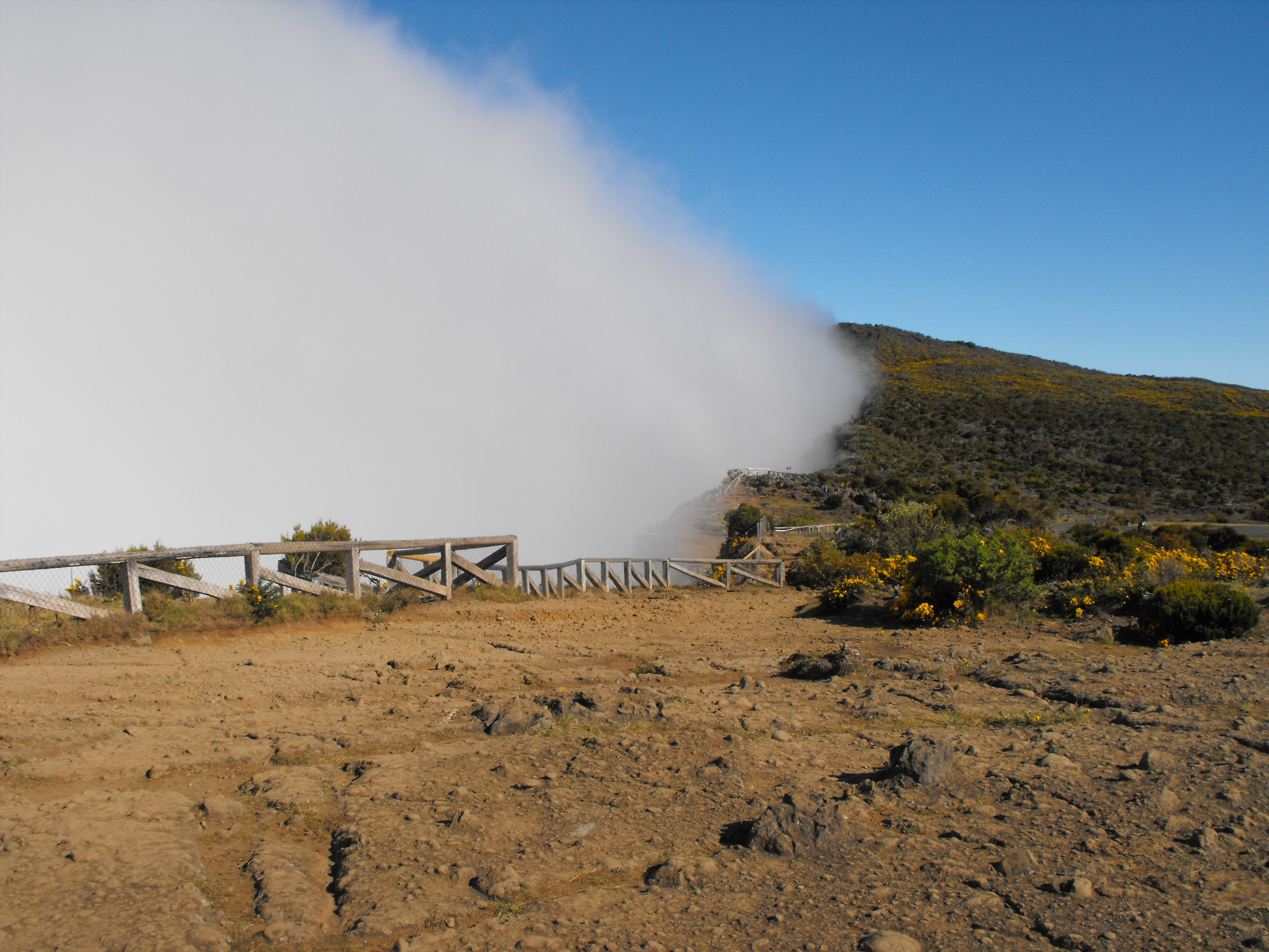 The viewpoint Maido on Réunion Island. From the "Cirque Mafate" rise the clouds.